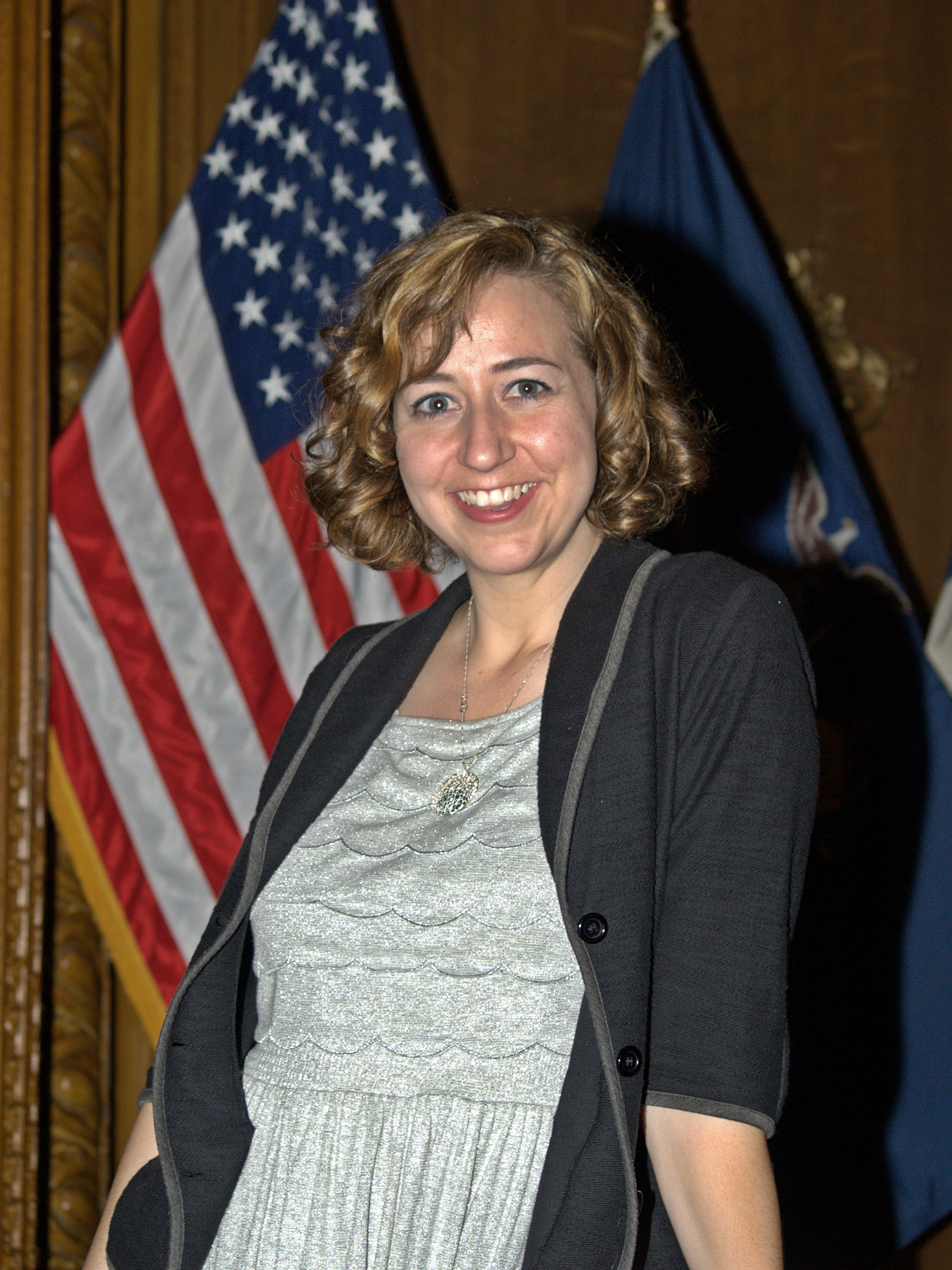 Kristen Schaal of The Daily Show and co-author, with her partner Ron Blomquist}Ron Blomquist , of the Sexy Book of Sexy Sex, at the 2010 Brooklyn Book Festival.